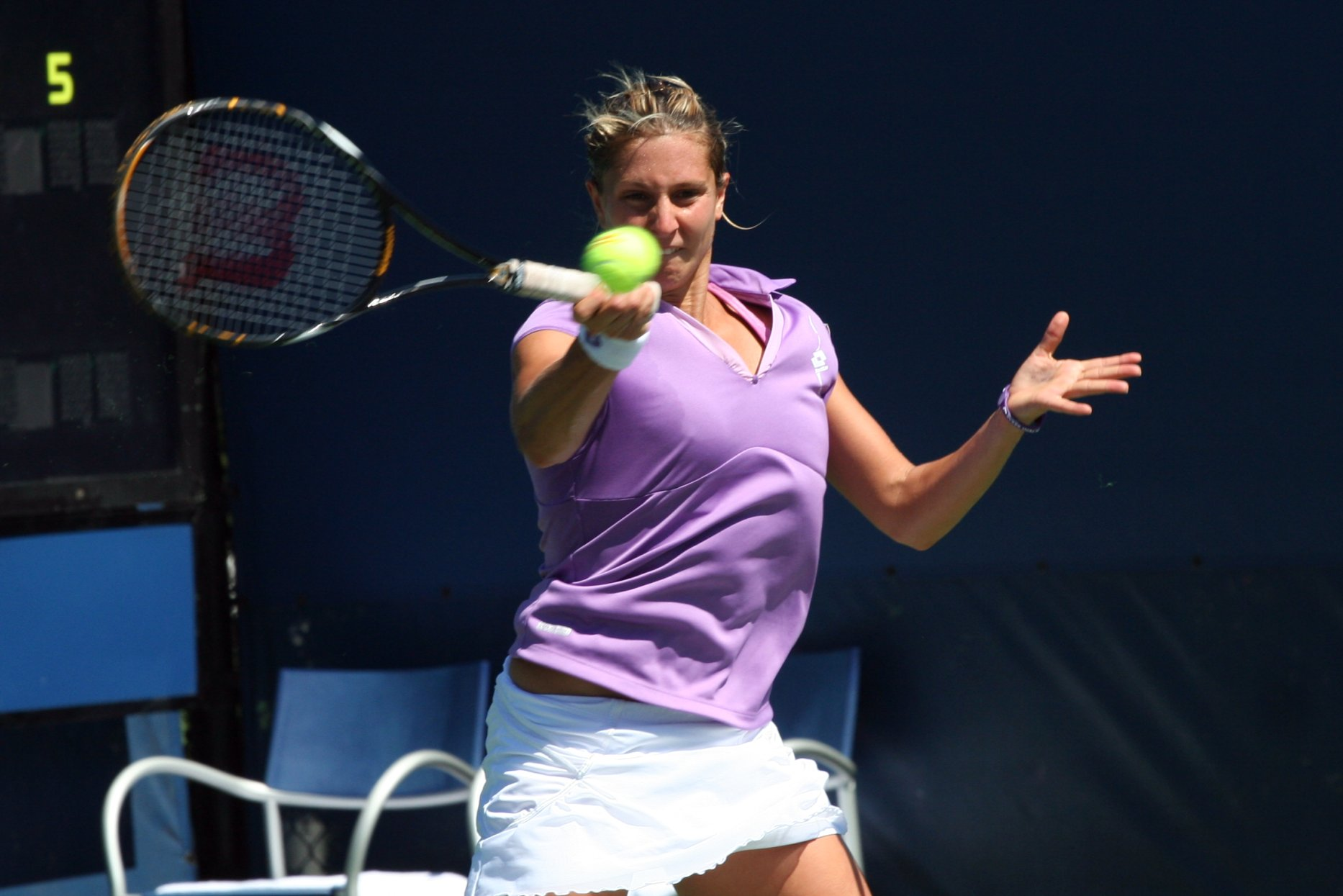 Maria Elena Camerin at the 2010 US Open